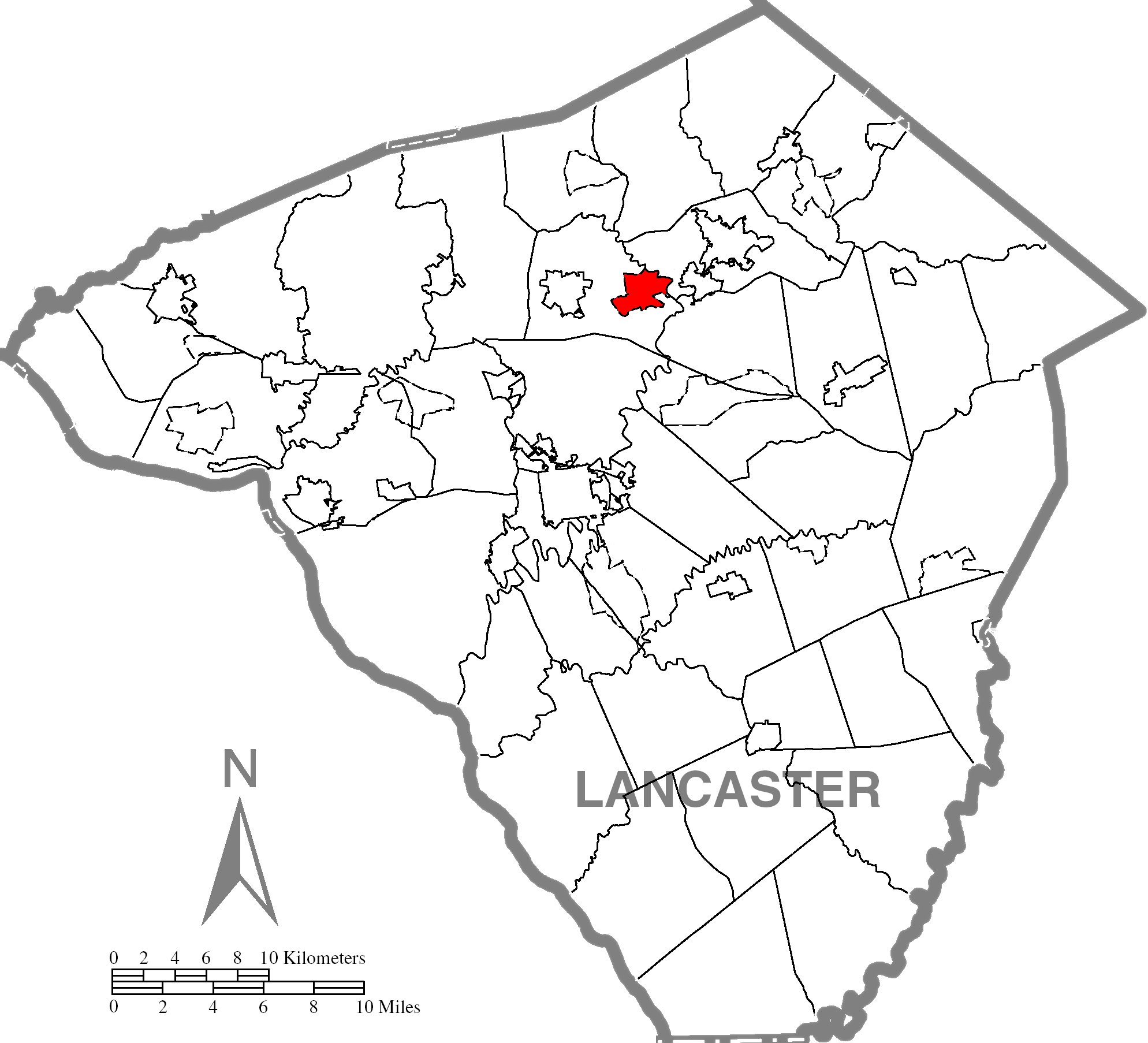 Highlighted Lancaster County map of Rothsville.